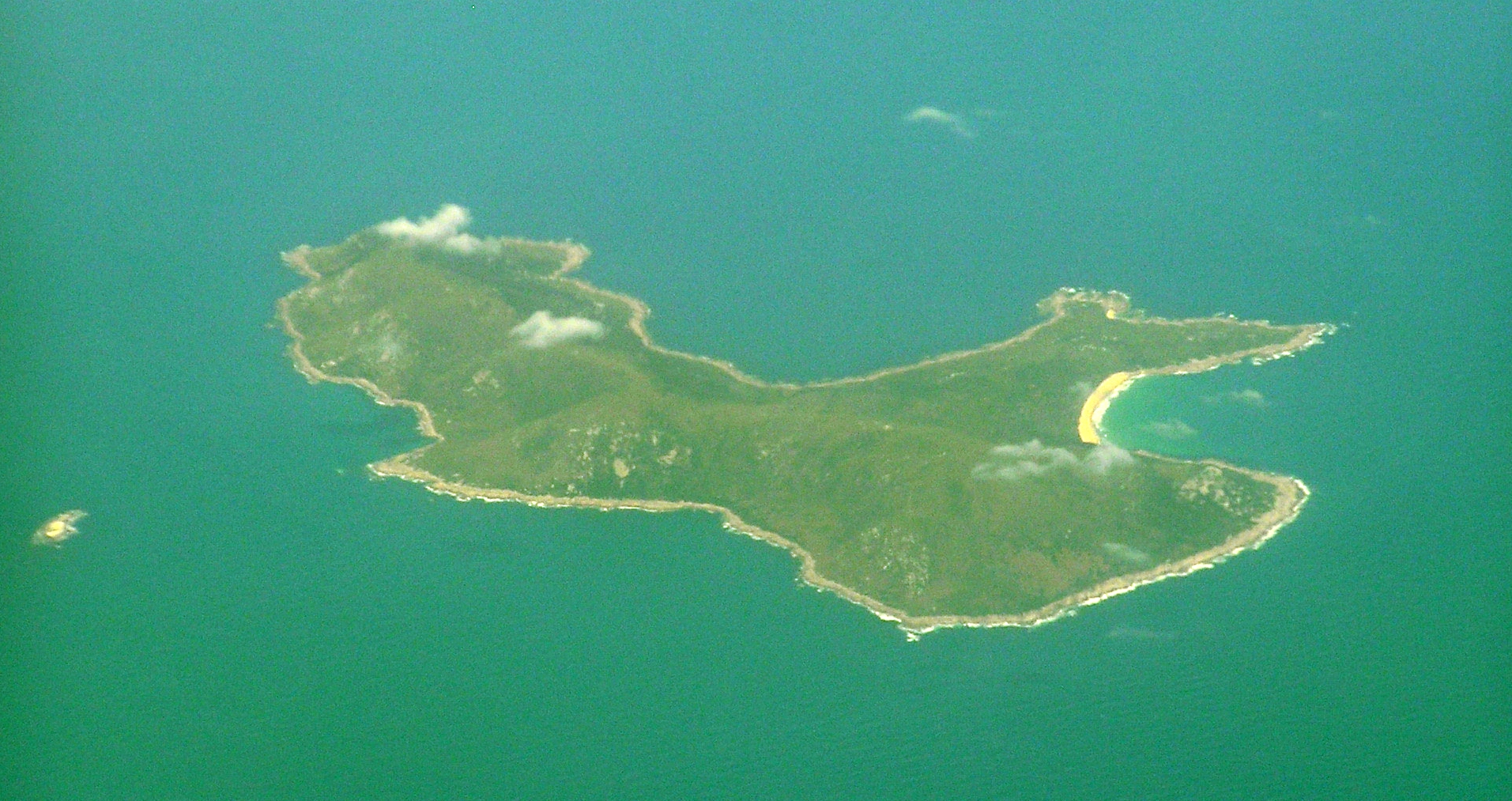 Outer Sister Island near Flinders Island Tasmania Australia